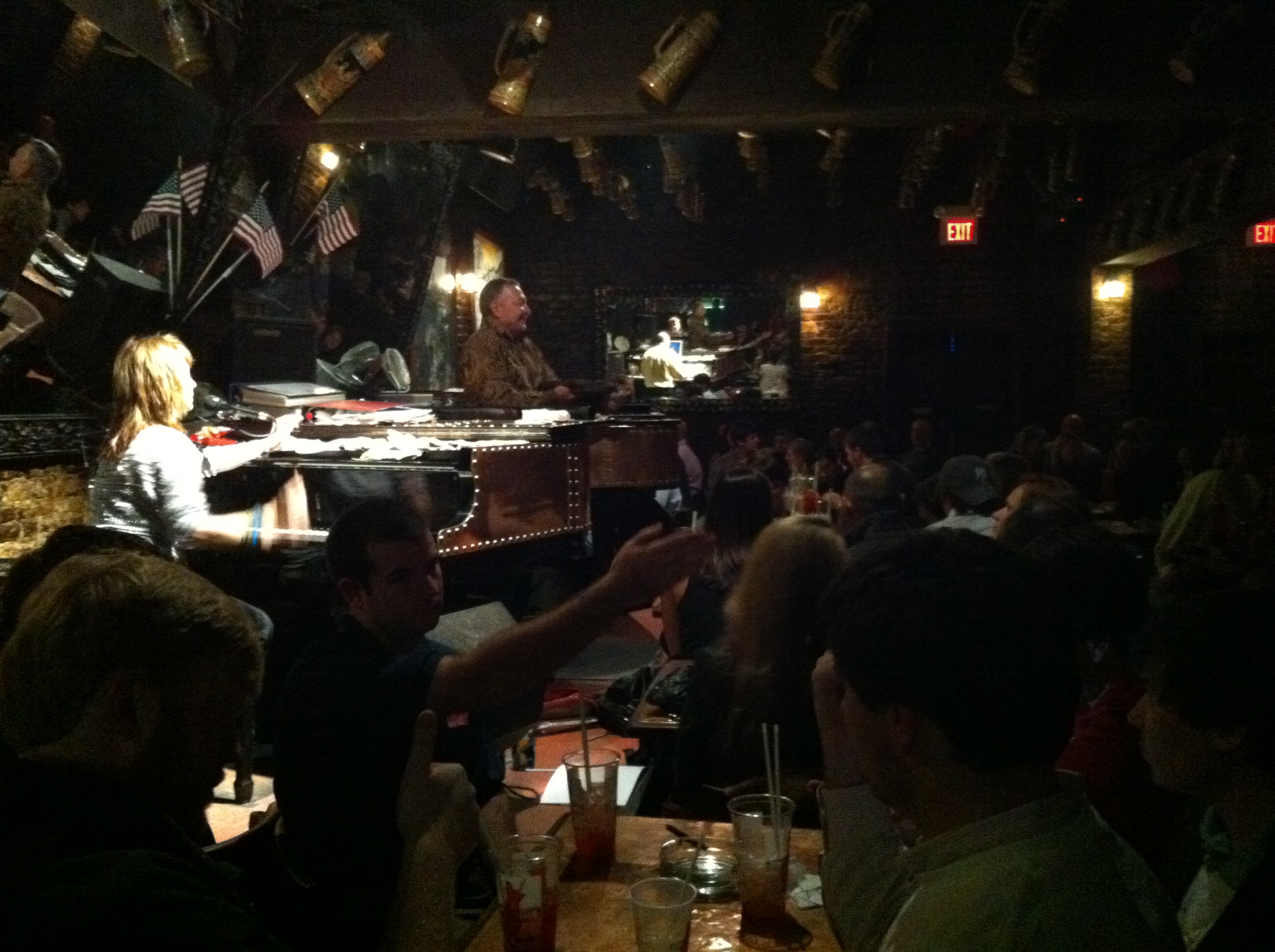 Piano Bar at Pat O'Brien's, French Quarter, New Orleans.